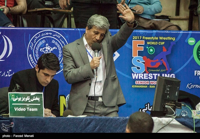 Hadi Amel in 2017 Freestyle Wrestling World Cup, Kermanshah, Iran.